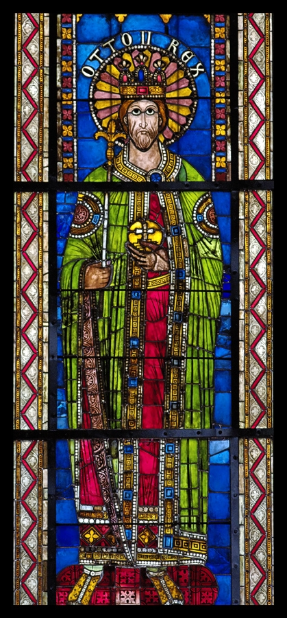 Romanesque stained glass depiction of Otto II, Holy Roman Emperor; Cathedral of Our Lady of Strasbourg, France